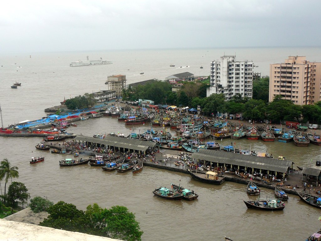 Fishing docks in Colaba, Mumbai, India.